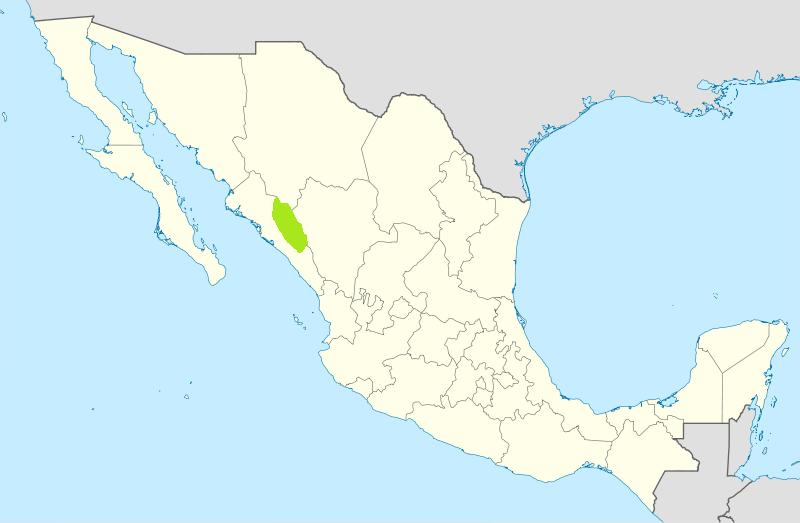 Map of Mexico, with states borders.